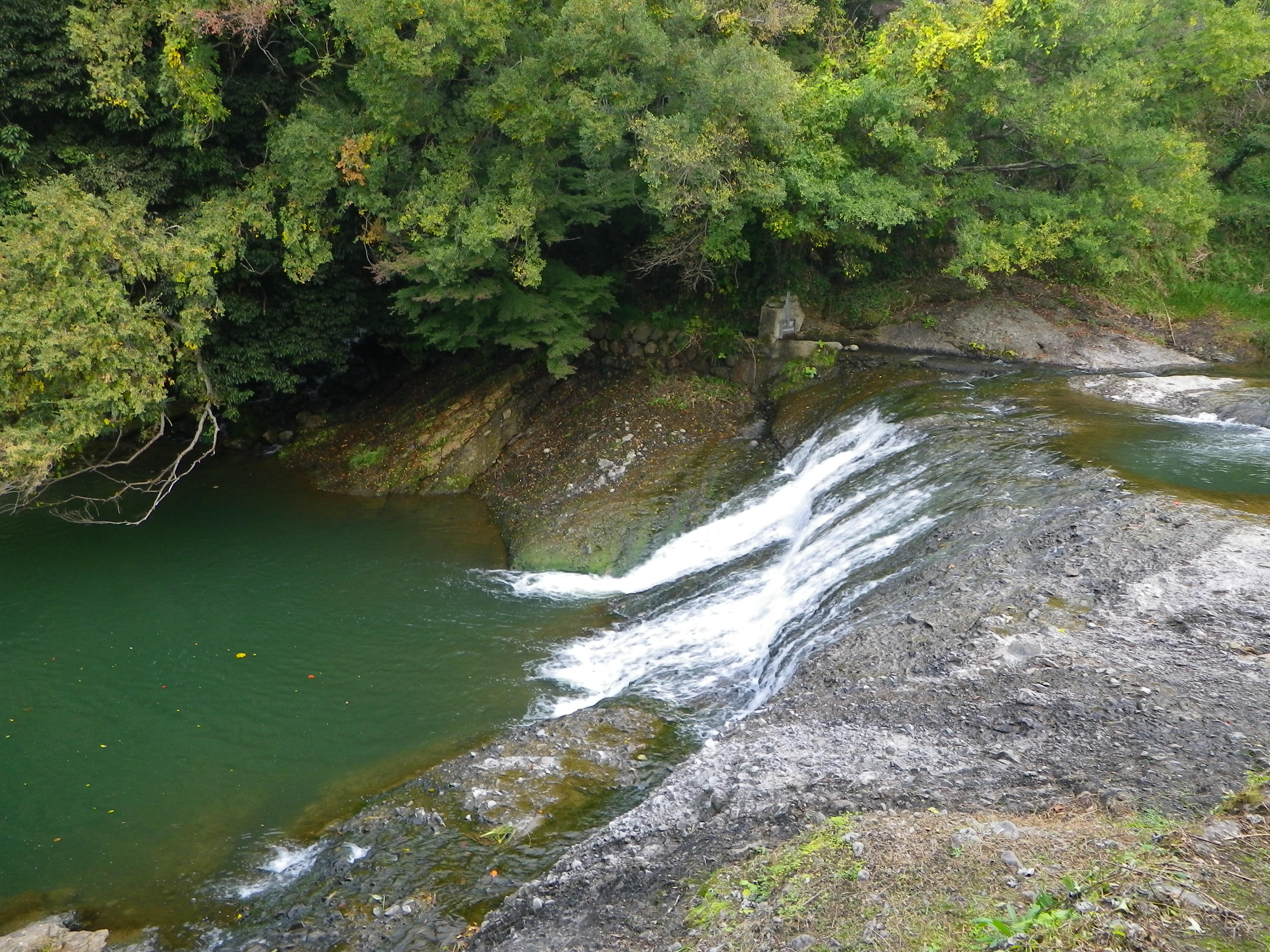 Tobe thrust fault in Tobe, Ehime Prefecture, Japan.